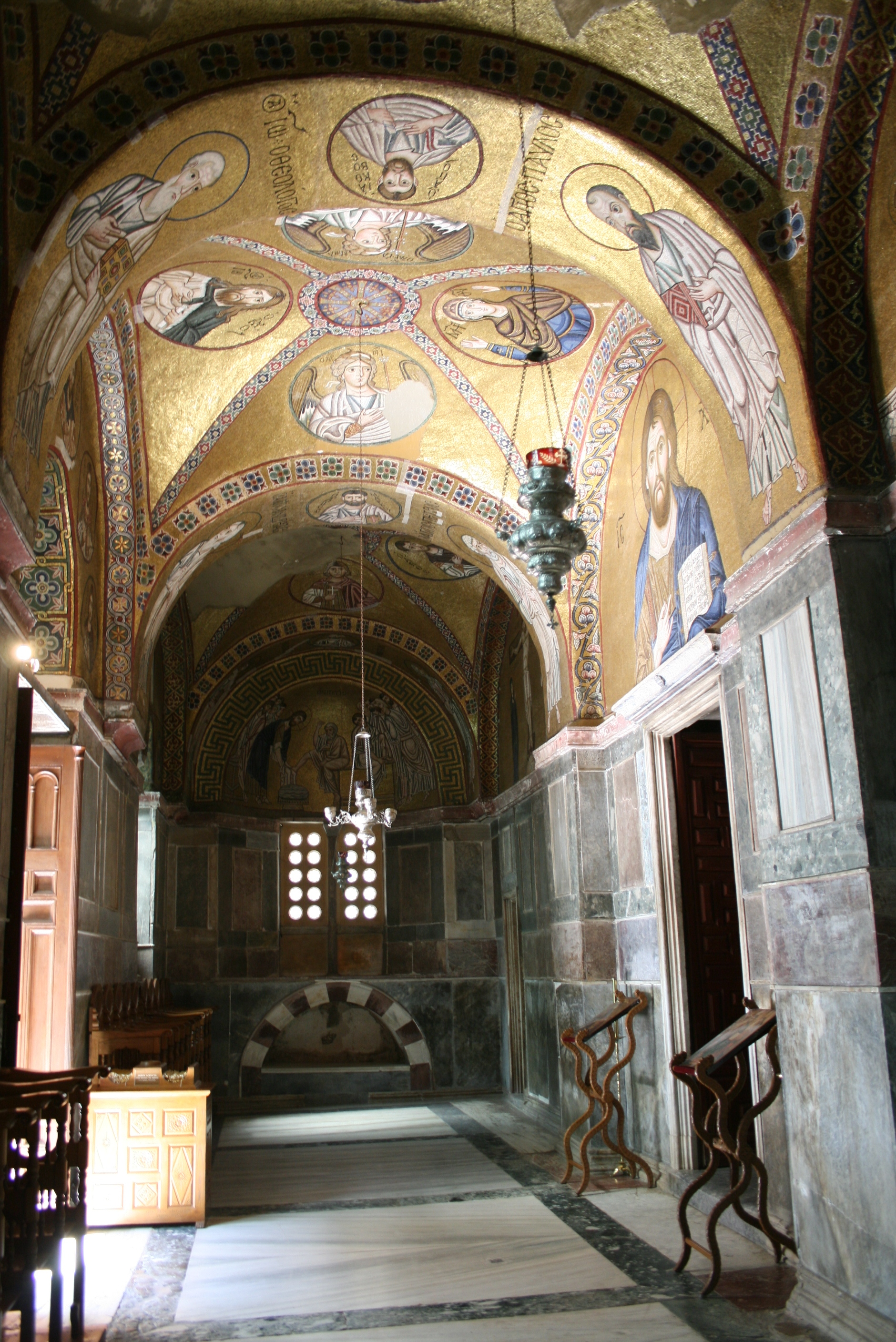 Hosios Lukas, Greece